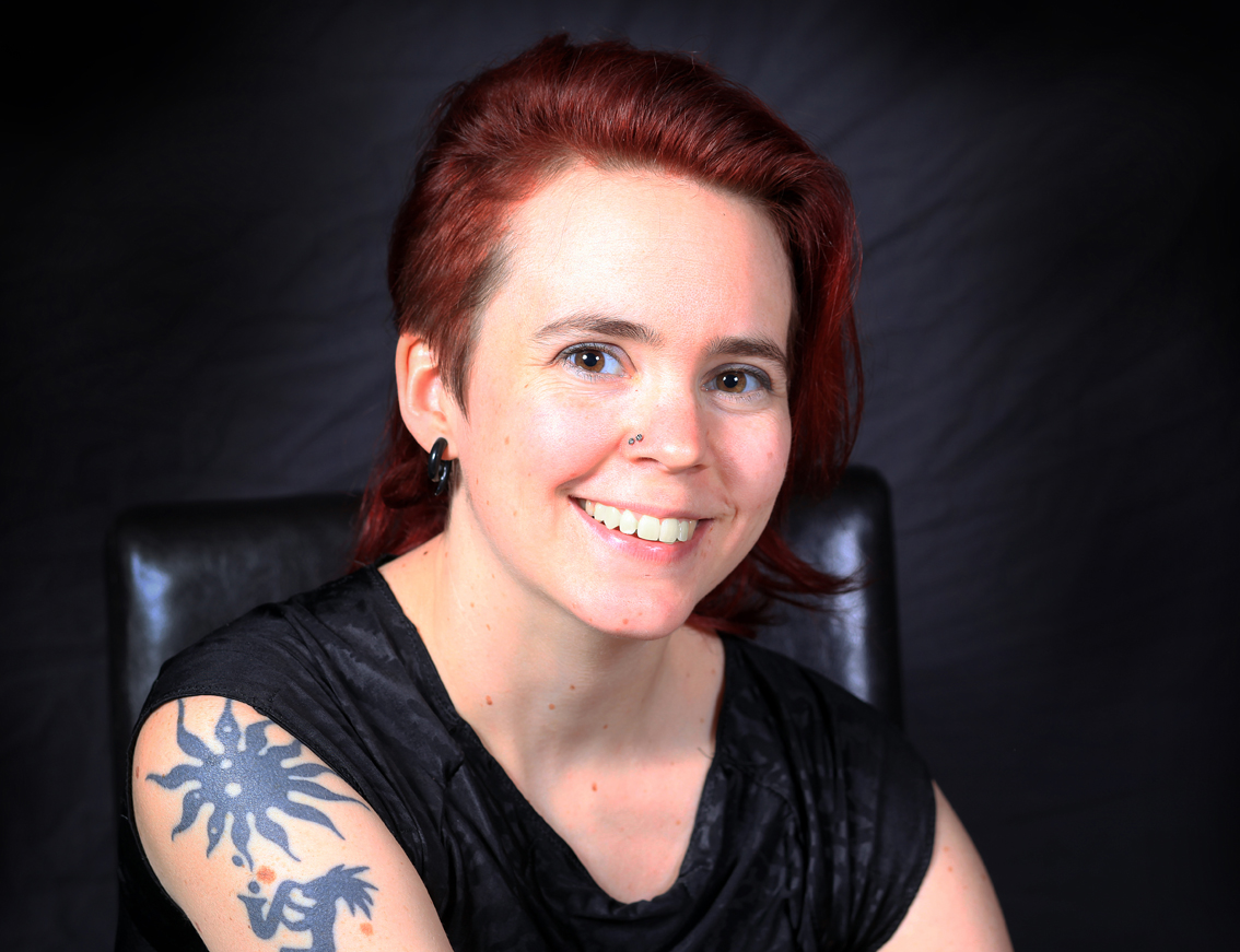 Sara Lövestam 2012